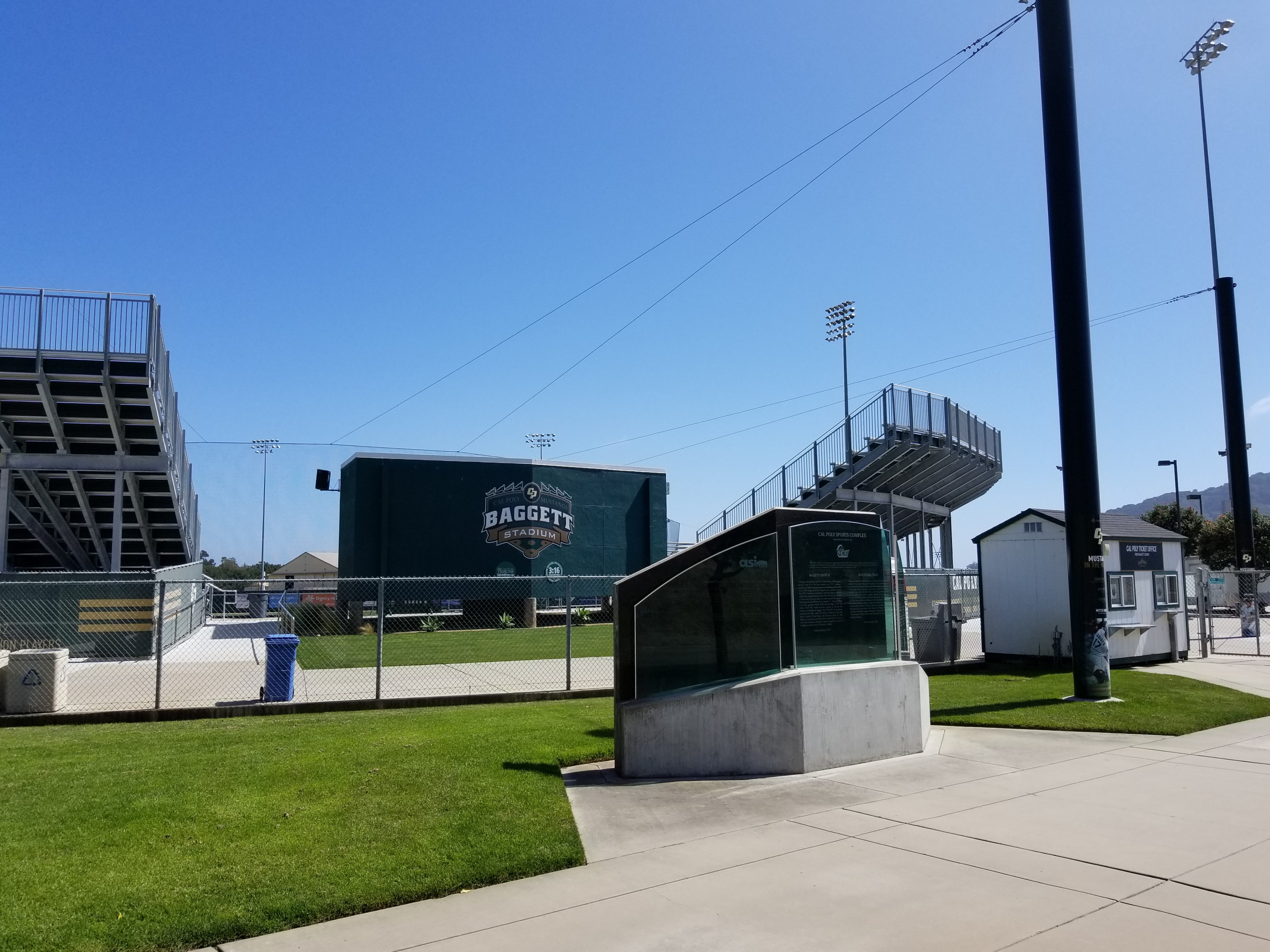 Robin Baggett Stadium (San Luis Obispo)